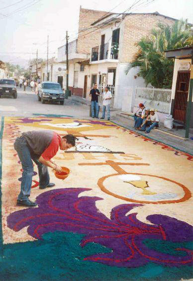 Saw dust carpet, a tradition during Holy Week in Comayagua, Honduras